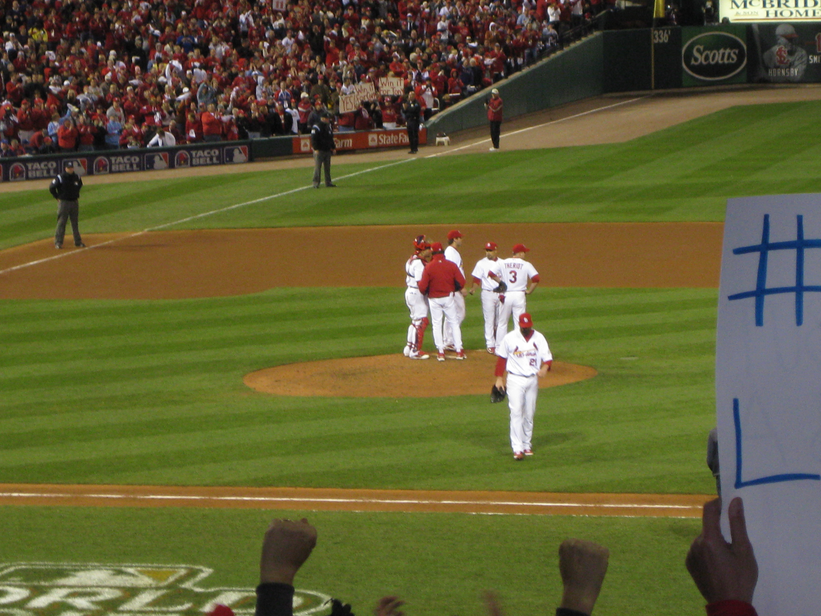 Chris Carpenter relieved at the top of the 7th inning, Game 7 of the 2011 World Series. Carpenter would get the win for this championship clinching game.